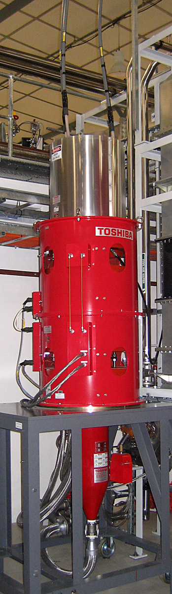 A klystron as used in the storage ring at the Australian Synchrotron, Clayton, Victoria.